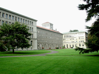 Centre William Rappard, lake (East) façade and park Block (formerly of the ILO). The South-East wing (left) was built in 1957.